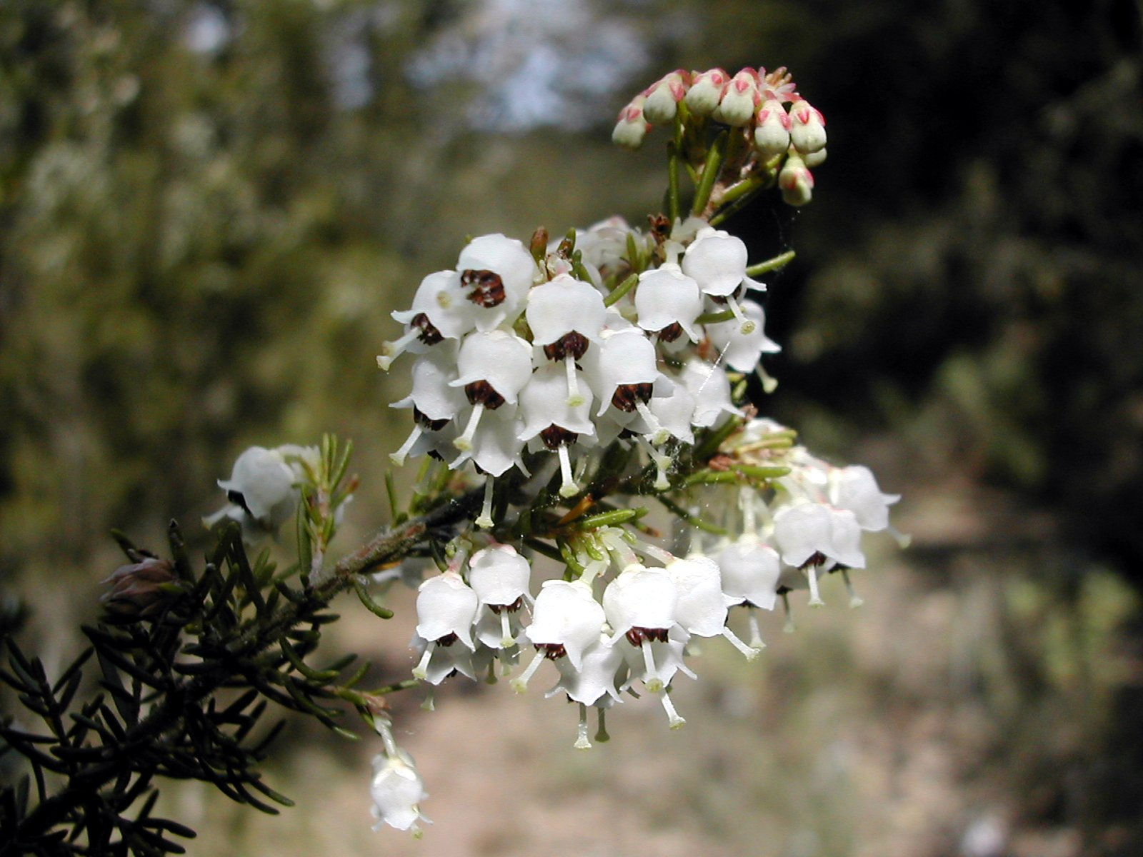 flowers Author:David Gaya